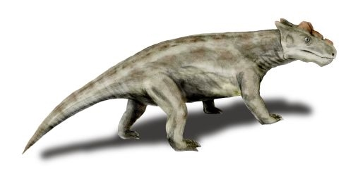 Proburnetia , a Biarmosuchian from the Late Permian of Russia, pencil drawing, digital coloring